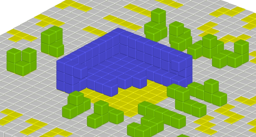 Explanation how to play puzzles with pentacubes